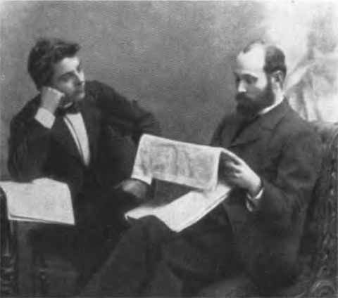 Klimуте Voroshilov and his teacher Semyon Ryzhkov